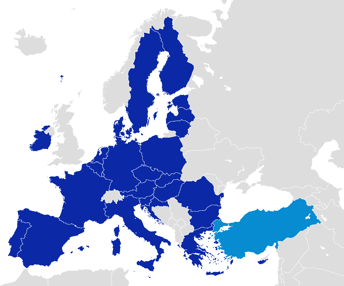 European Union members and official candidate and negotiator country Turkey's location map.